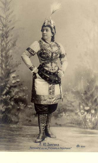 Photo of russian opera singer Lidia Zvyagina